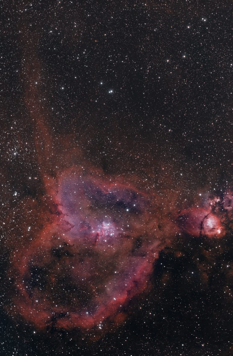 Heart Nebula in bi-color H alpha + OIII Mosaic with a 384mm telescope